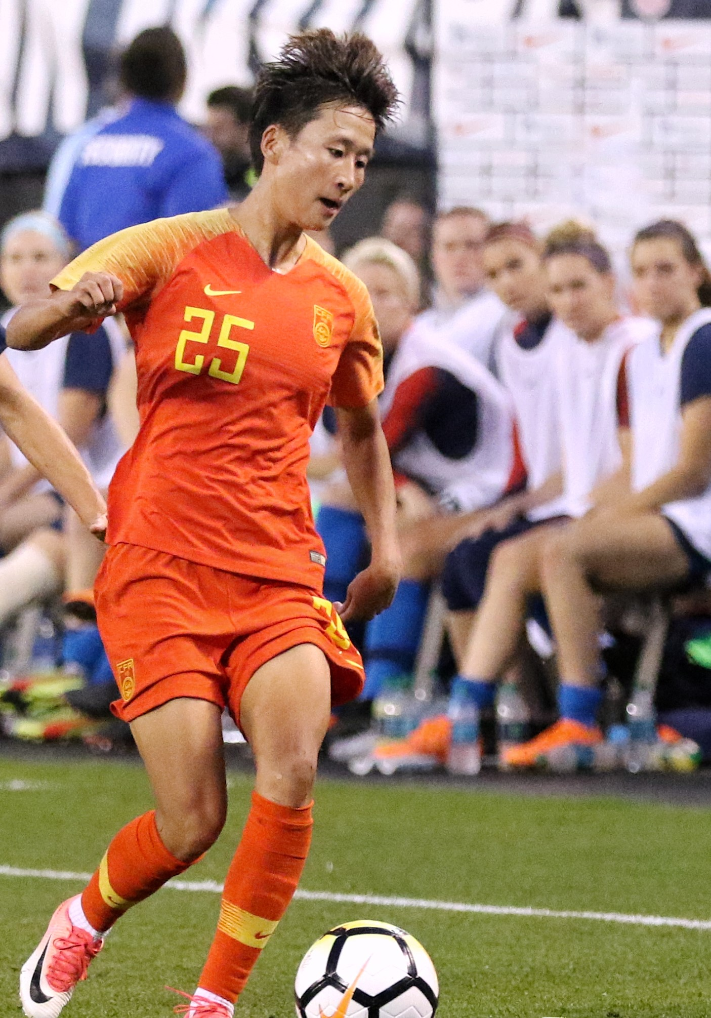 Lou Jiahui representing China in a match against the United States in June 2018.